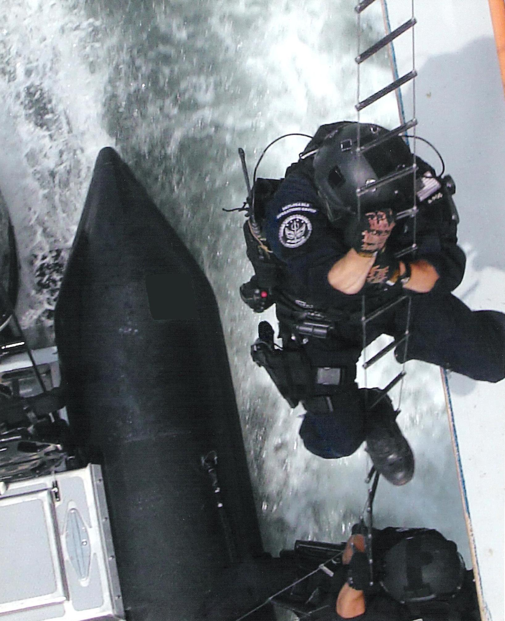 Members of the MSRT DAS hook and climb onto a target.